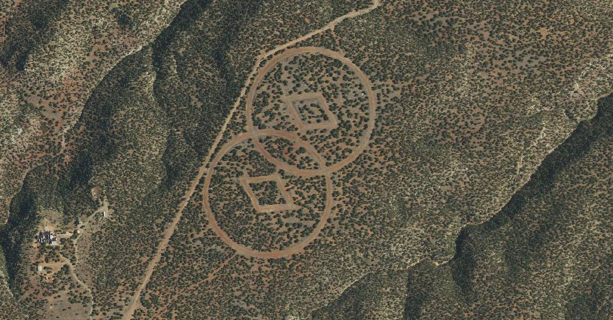 Satellite photo of Scientology "Trementina base", with diamonds-in-intersecting-circles symbol.